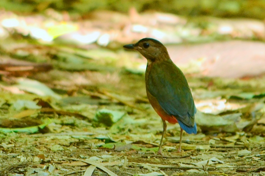 Immature Red-bellied Pitta (Pitta erythrogaster celebensis)